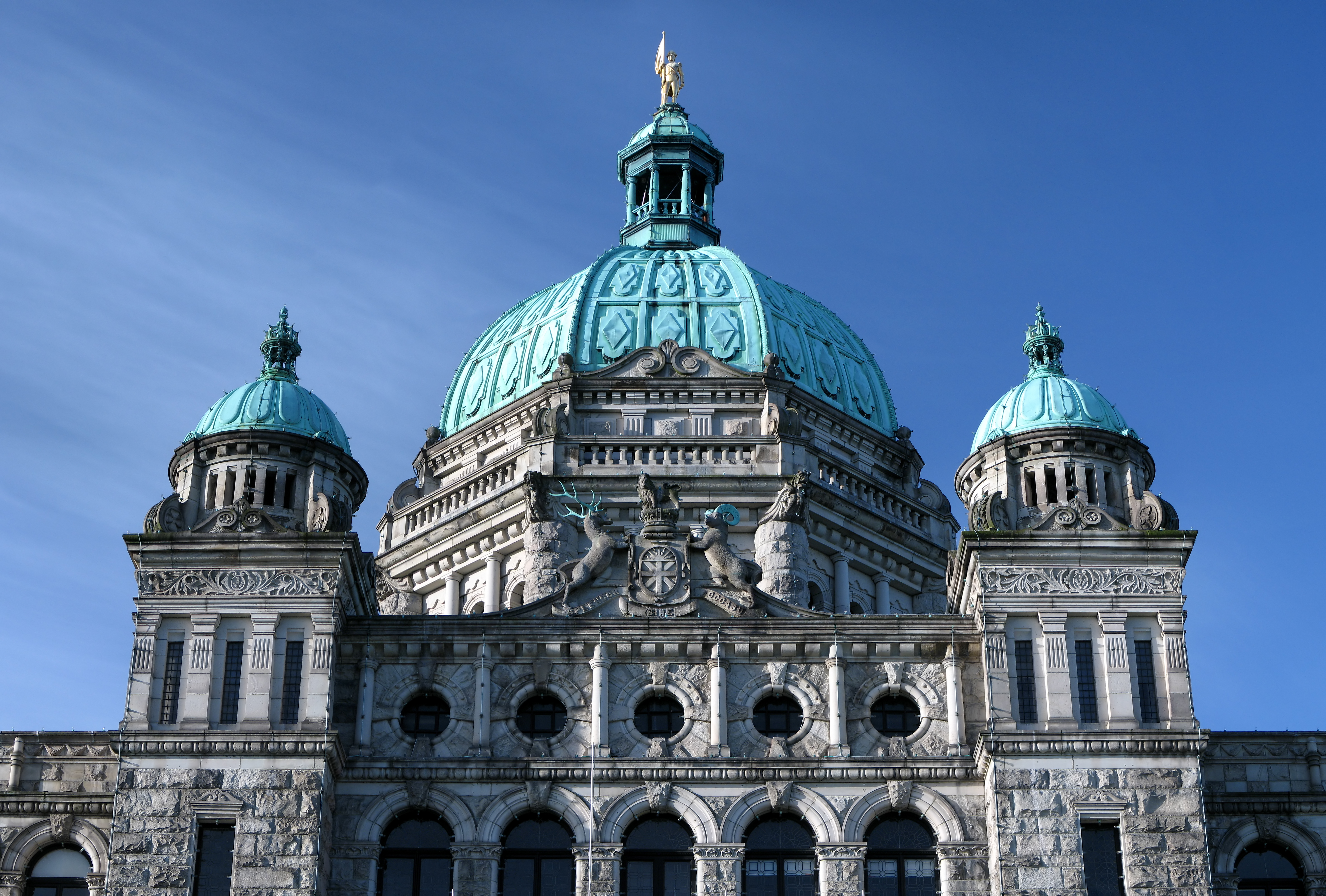 The roof of the British Columbia Parliament Buildings in Victoria, BC This image was created by stitching together 15(3 tall, 5 across) images. A 23.2 mega-pixel image from a 5.9 mega-pixel camera.